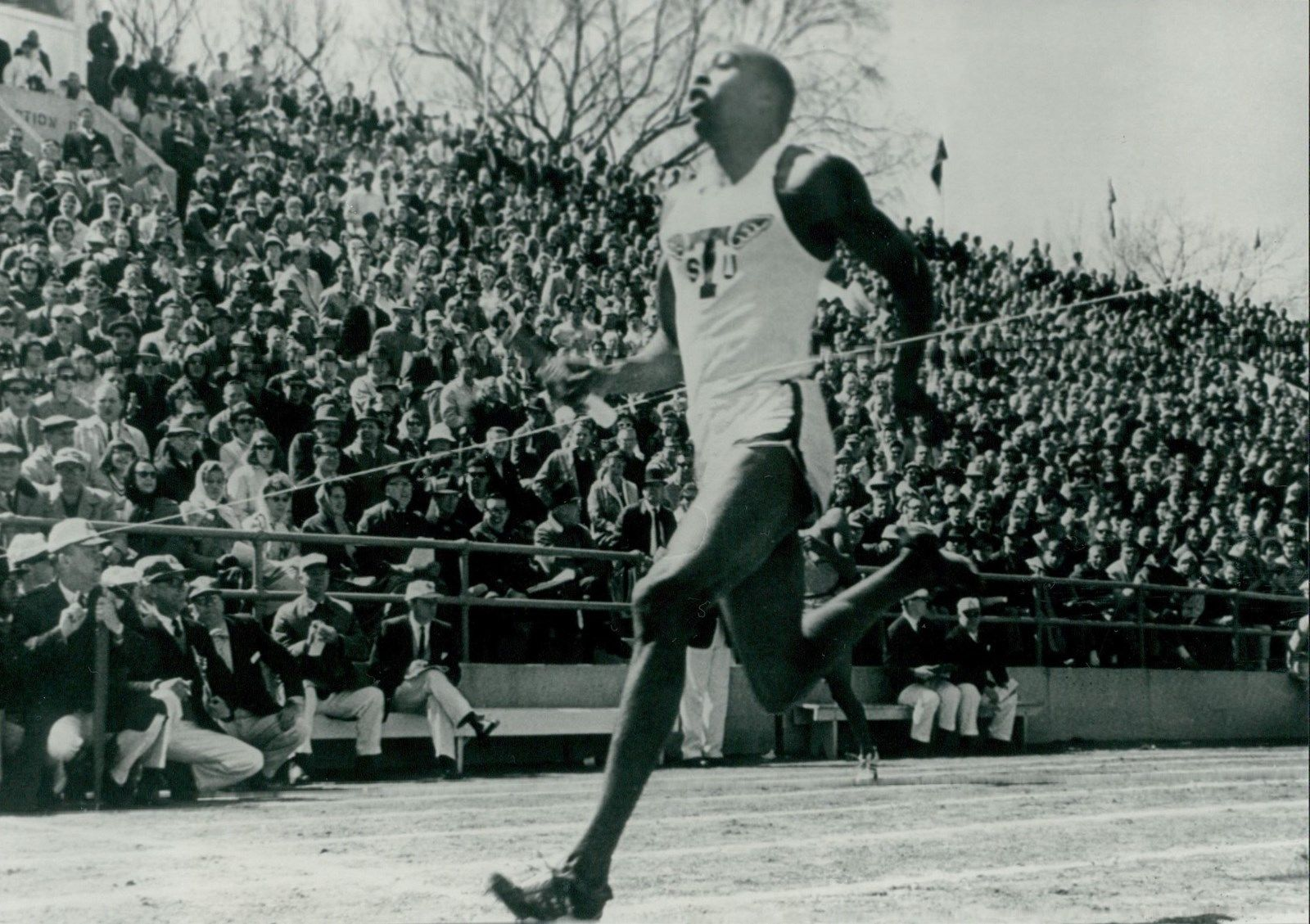 1966 Wire Photo track athlete Jim Hines sets 440 yd relay record Texas Southern